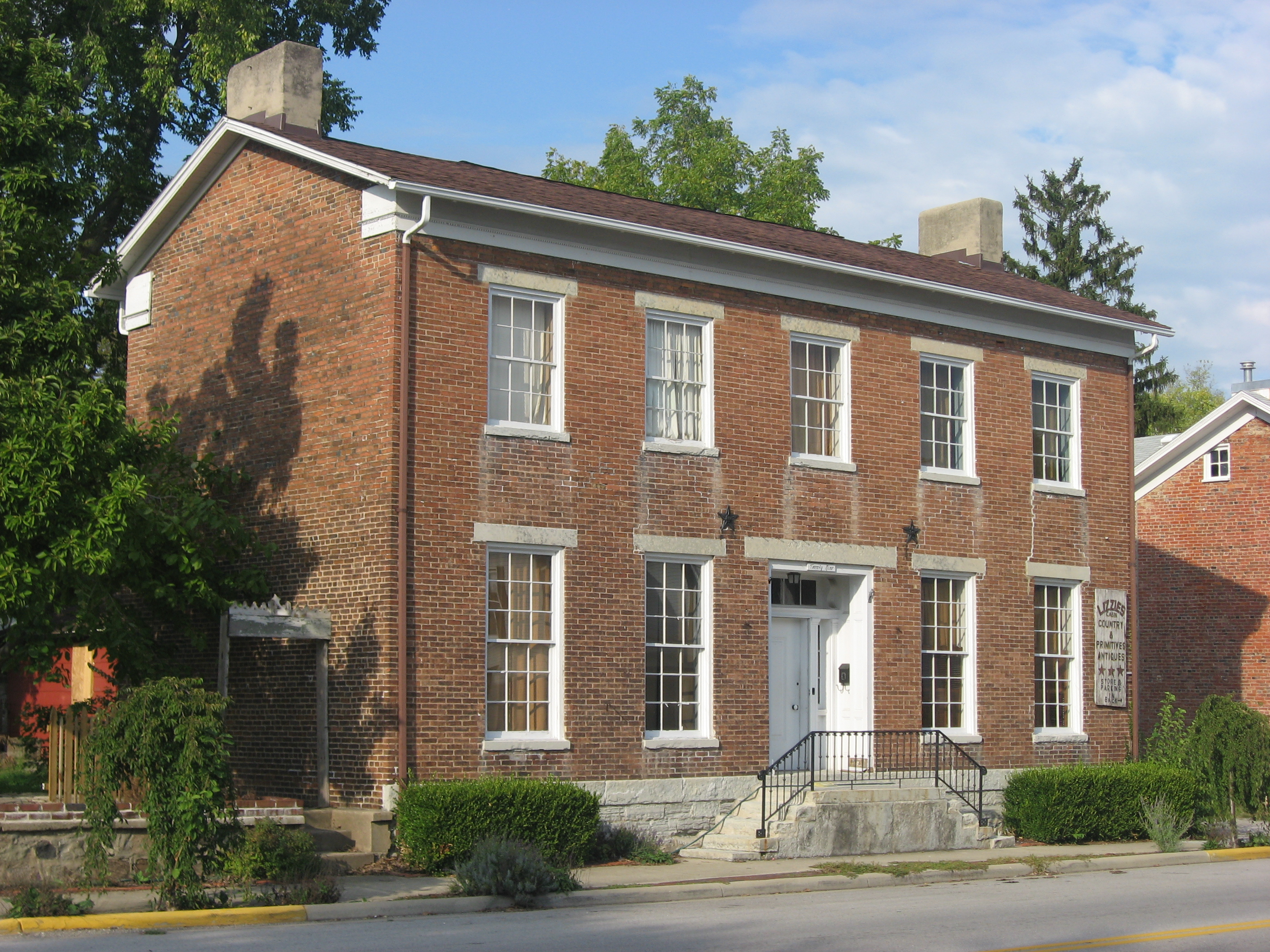 Front and western side of the George B. Unger House, located at 29 E. Dayton Street (U.S. Route 35) in West Alexandria, Ohio, United States. Built in 1830, it is listed on the National Register of Historic Places.